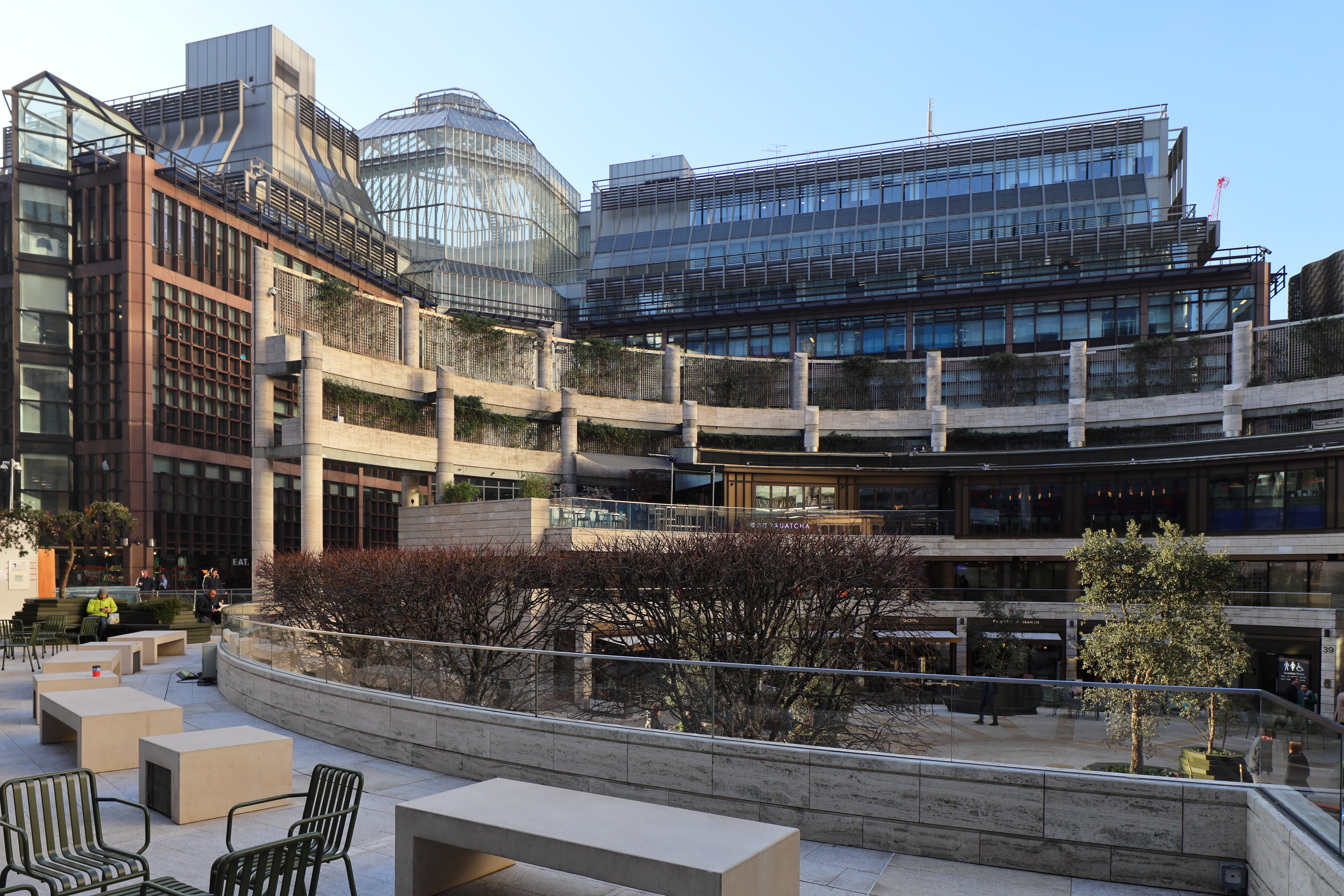 Broadgate Circle viewed from its eastern arc.